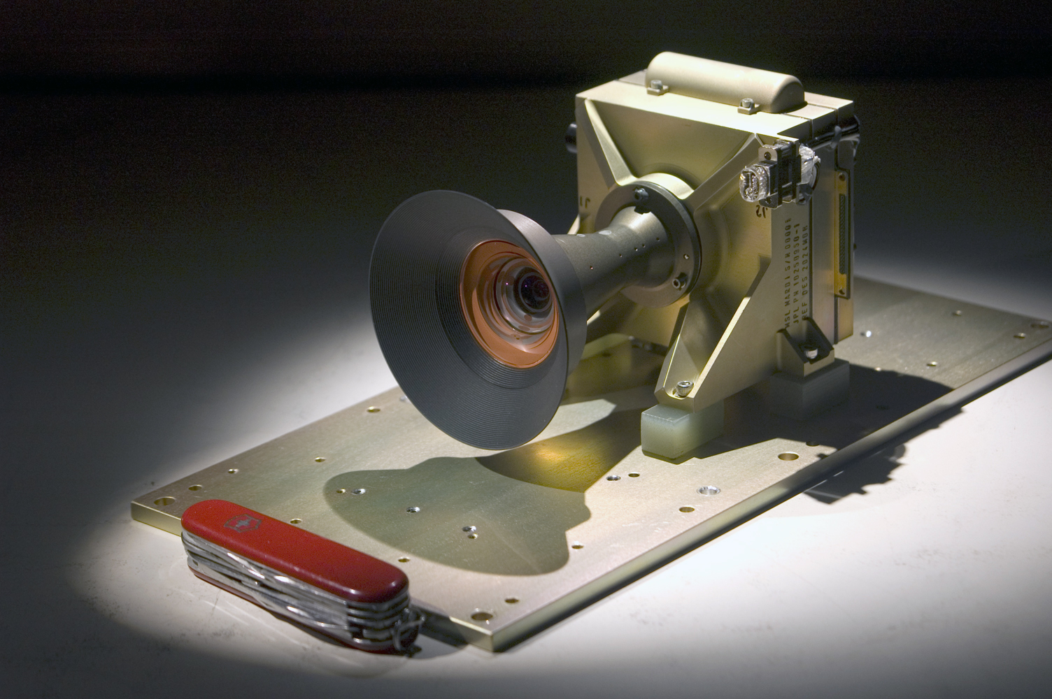 The Mars Descent Imager (MARDI) is a downward-looking camera which will take about four frames per second at nearly 1,600 by 1,200 pixels per frame for about the final two minutes before Curiosity touches down on Mars in August 2012. Malin Space Science Systems, San Diego, Calif., supplied MARDI and two other camera instruments for the mission. A pocketknife provides scale for the image